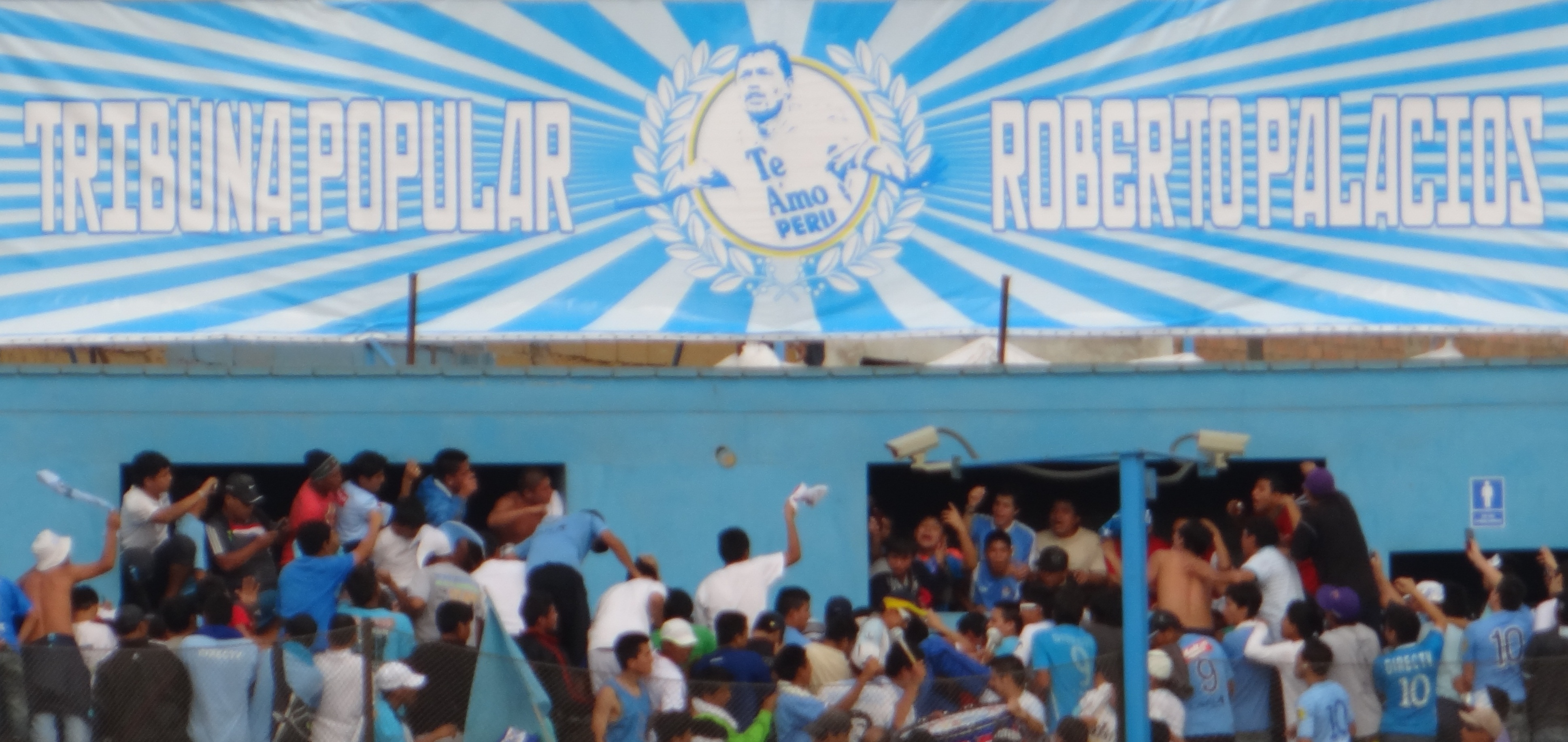 Tribuna Roberto Palacios "Chorri"